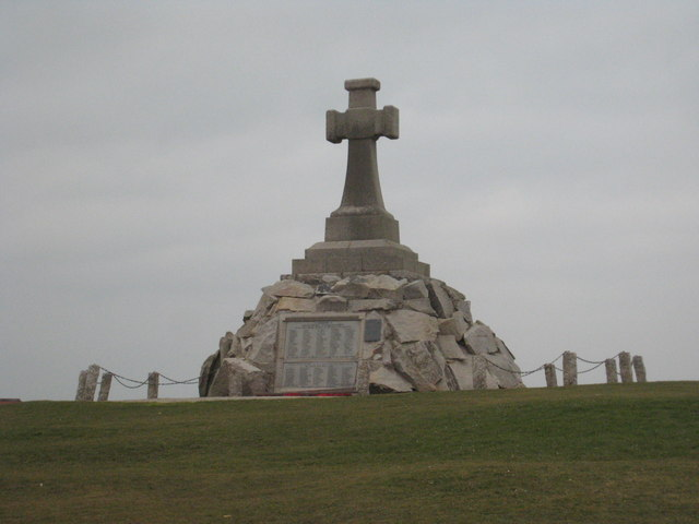 Newquay War Memorial Set in an imposing position high on the downs, this memorial is marked on the map as 'cross'. The latest addition to the memorial is the slate plaque on the right which commemorates a soldier who died in Afghanistan.